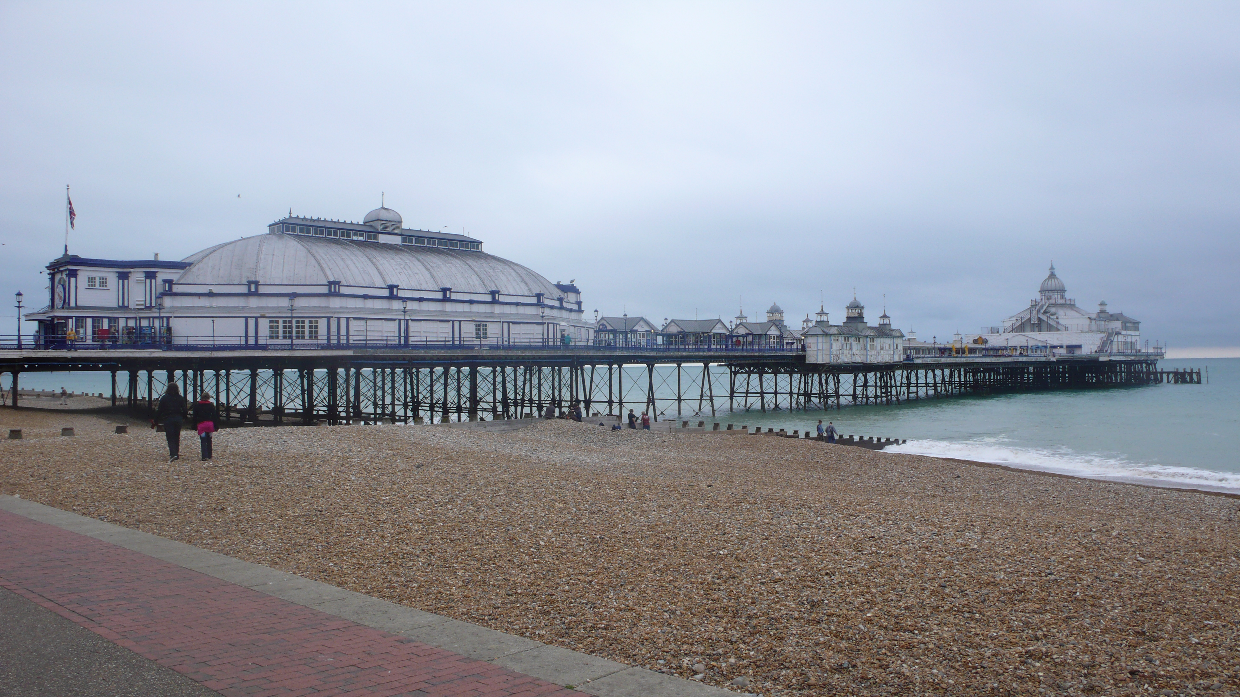 Eastbourne pier